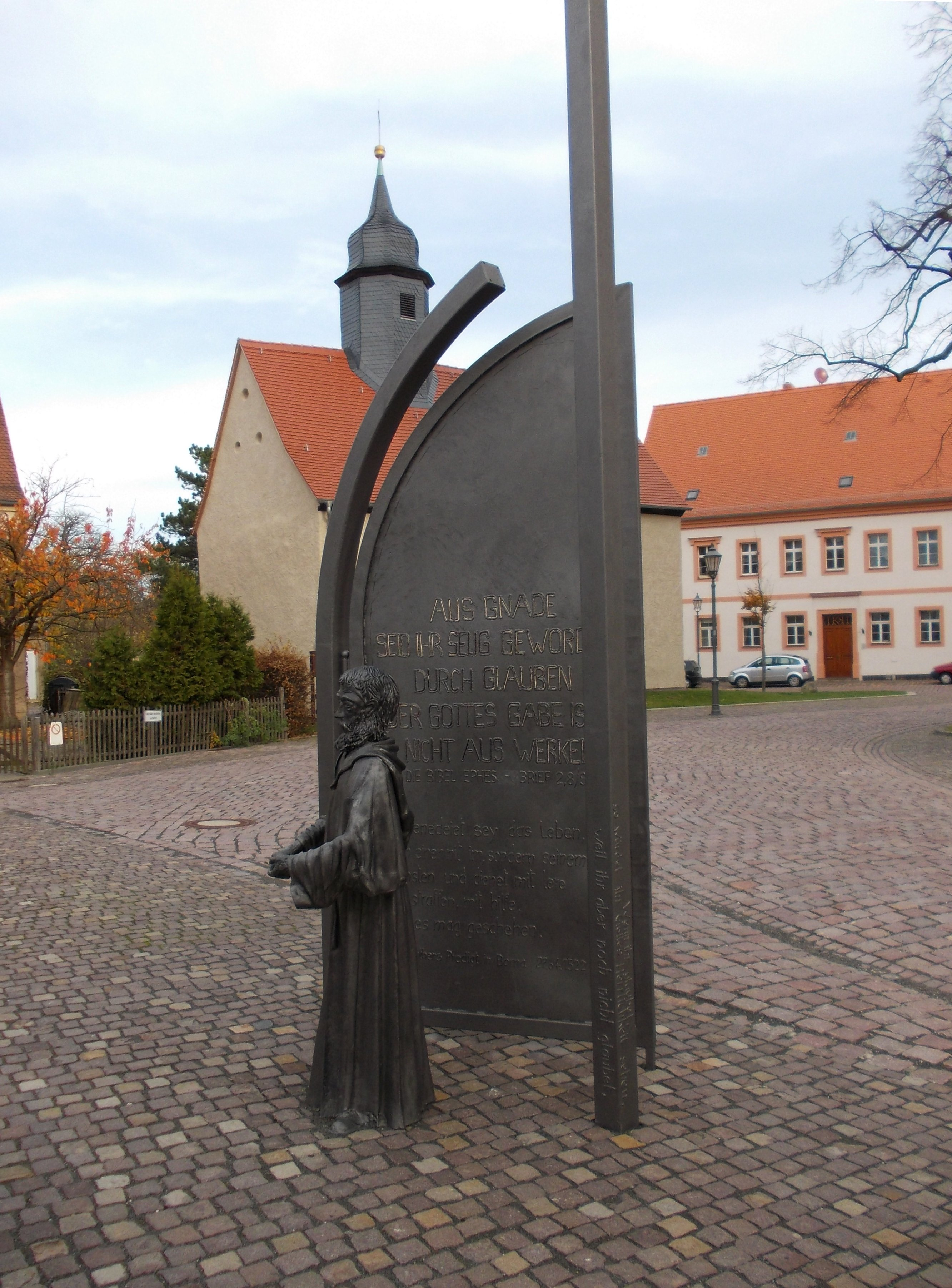 Martin Luther memorial by Hilko Schomerus in Borna (Leipzig district, Saxony), with Emmaus Church in the background